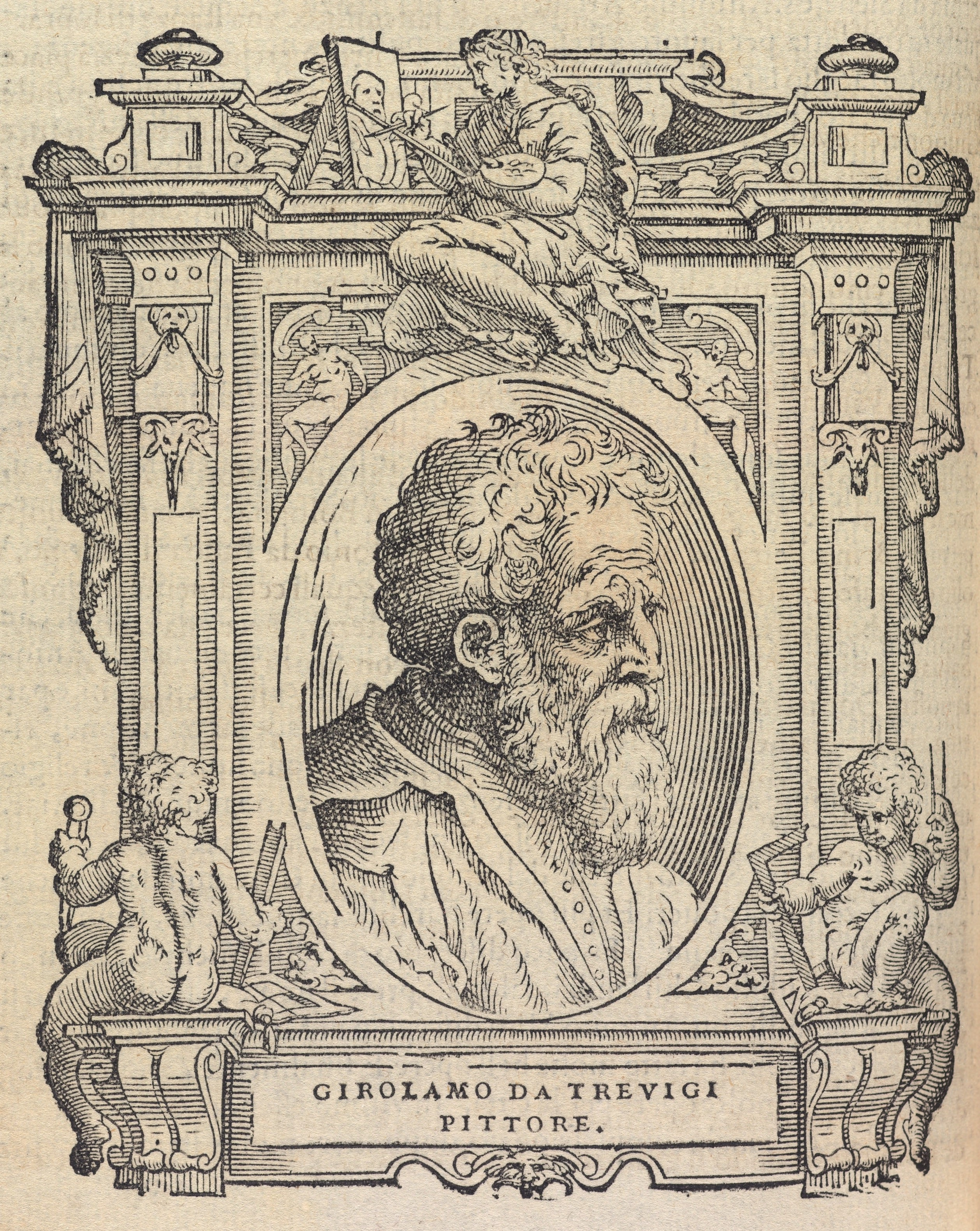 Plate of Girolamo da Trevigi, from Le vite de’ piv eccellenti pittori, scvltori, e architettori (Fiorenza: Appresso i Giunti, 1568), by Giorgio Vasari (1511-1574). Typ 525 68.864, Houghton Library, Harvard University